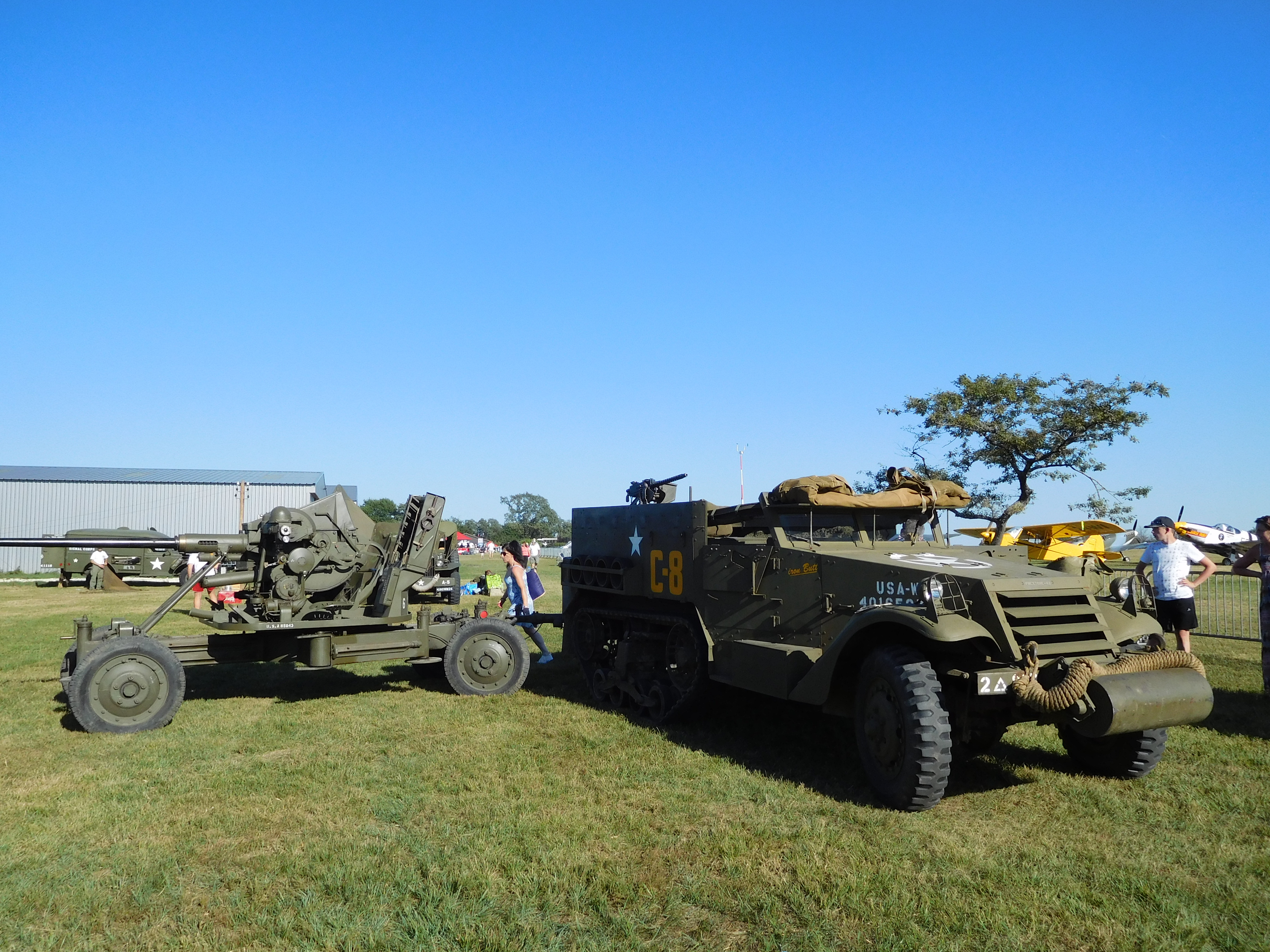 Halftrack and 1943 US Army 40 mm anti-aircraft gun.